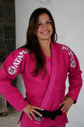 brazilian Jiu-Jitsu fighter Kyra Gracie